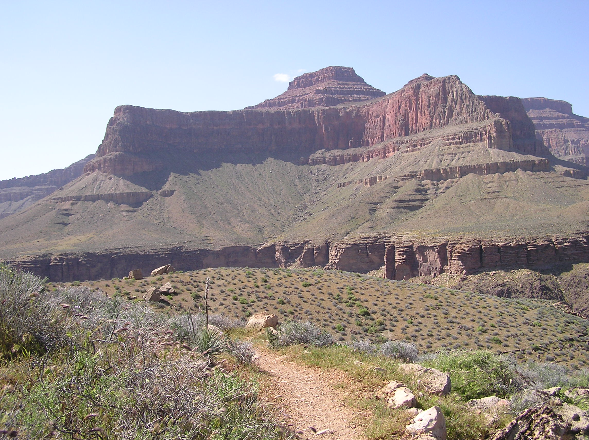 Tower of Set seen from Tonto Trail, Grand Canyon National Park. Photo taken 17 April 2005. The Tower of Set is (viewed) between Salt Creek, west, and Horn Creek, east, directly north (below) Hopi Point, western South Rim, Grand Canyon. (The Tower of Set (peak) is 1.9-mi due-NW, across Granite Gorge, from the trail; Benchmark, Arizona Road & Recreation Atlas.)